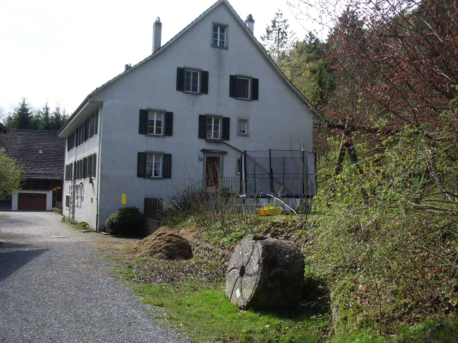 Sellenbüren ZH, Zürich